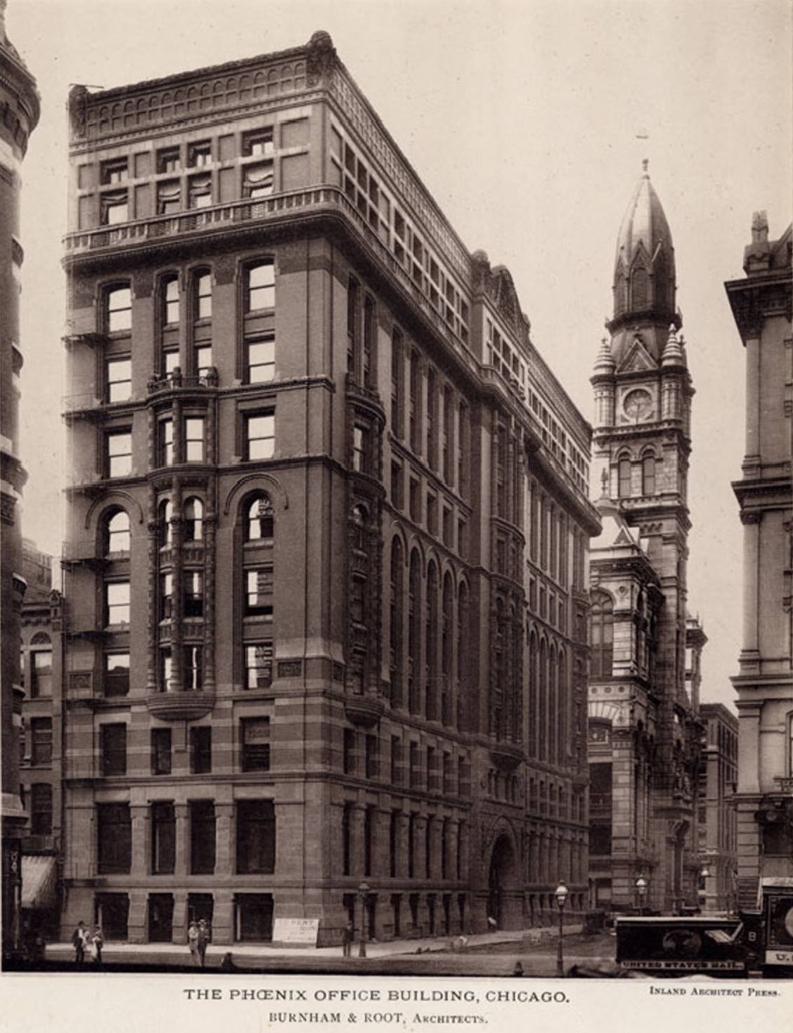 The Phenix Building, Chicago, IL as pictured in The Inland Architect & News Record, September, 1887